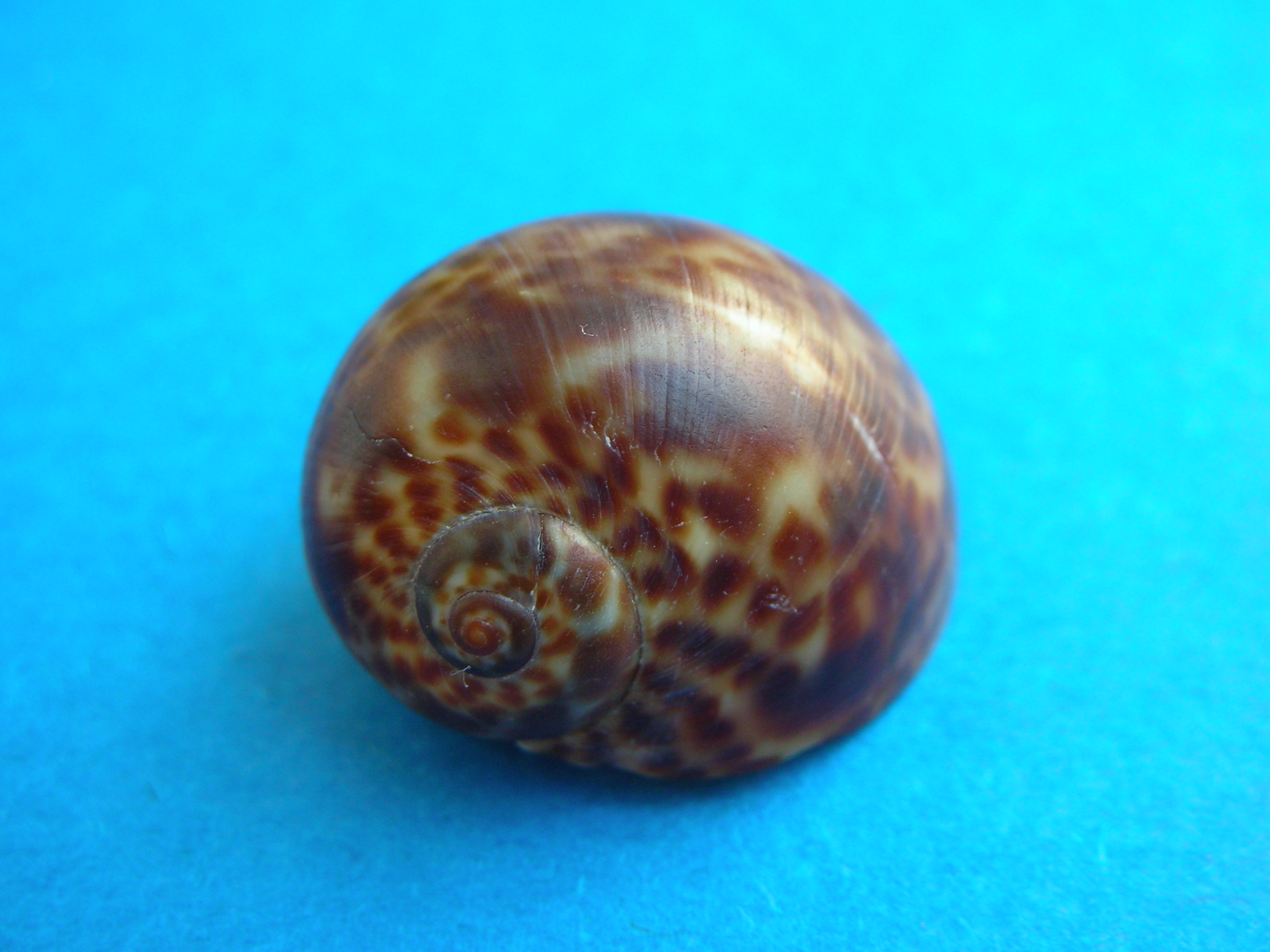 Naticarius hebraeus (Martyn, 1786) (synonym: Natica hebraea)